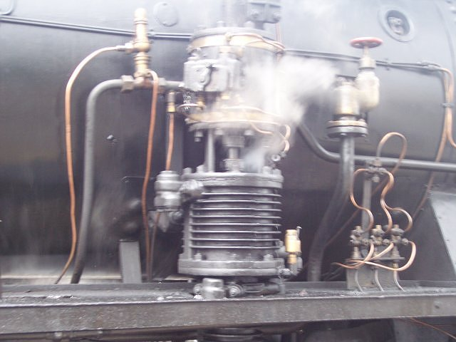 Pompa Westinghouse.Alimentata dal vapore della caldaia ricarica il circuito dei freni Westinghouse pump, fed by steam recovered in the boiler, reloads the braking circuit